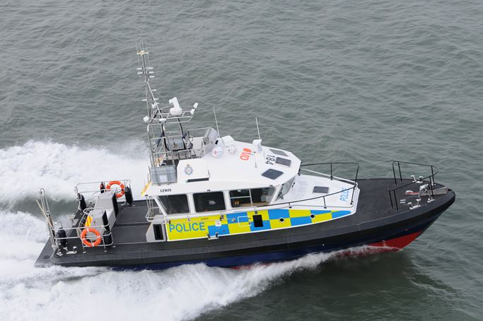 Island-class patrol vessel aka 15m Police Boat